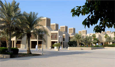 Qatar University